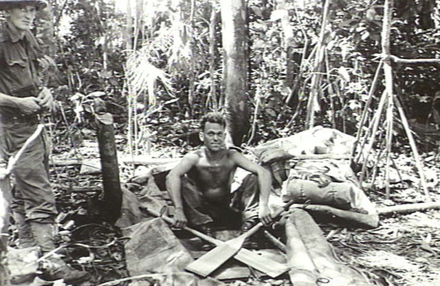 1942-12-01. NEW GUINEA. WAIROPI. JAPANESE TROOPS CAME PREPARED TO CROSS THE RIVER BY BOAT. PET. R.H. FORLAND, N.S.W. SITS IN ONE OF THE JAPANESE RUBBER BOATS LEFT BEHIND WHEN THE JAPANESE RETREATED. (NEGATIVE BY G. SILK).